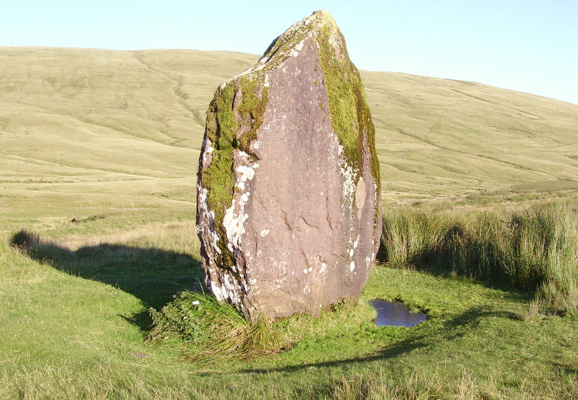 view of Brecon Beacons National Park in Wales